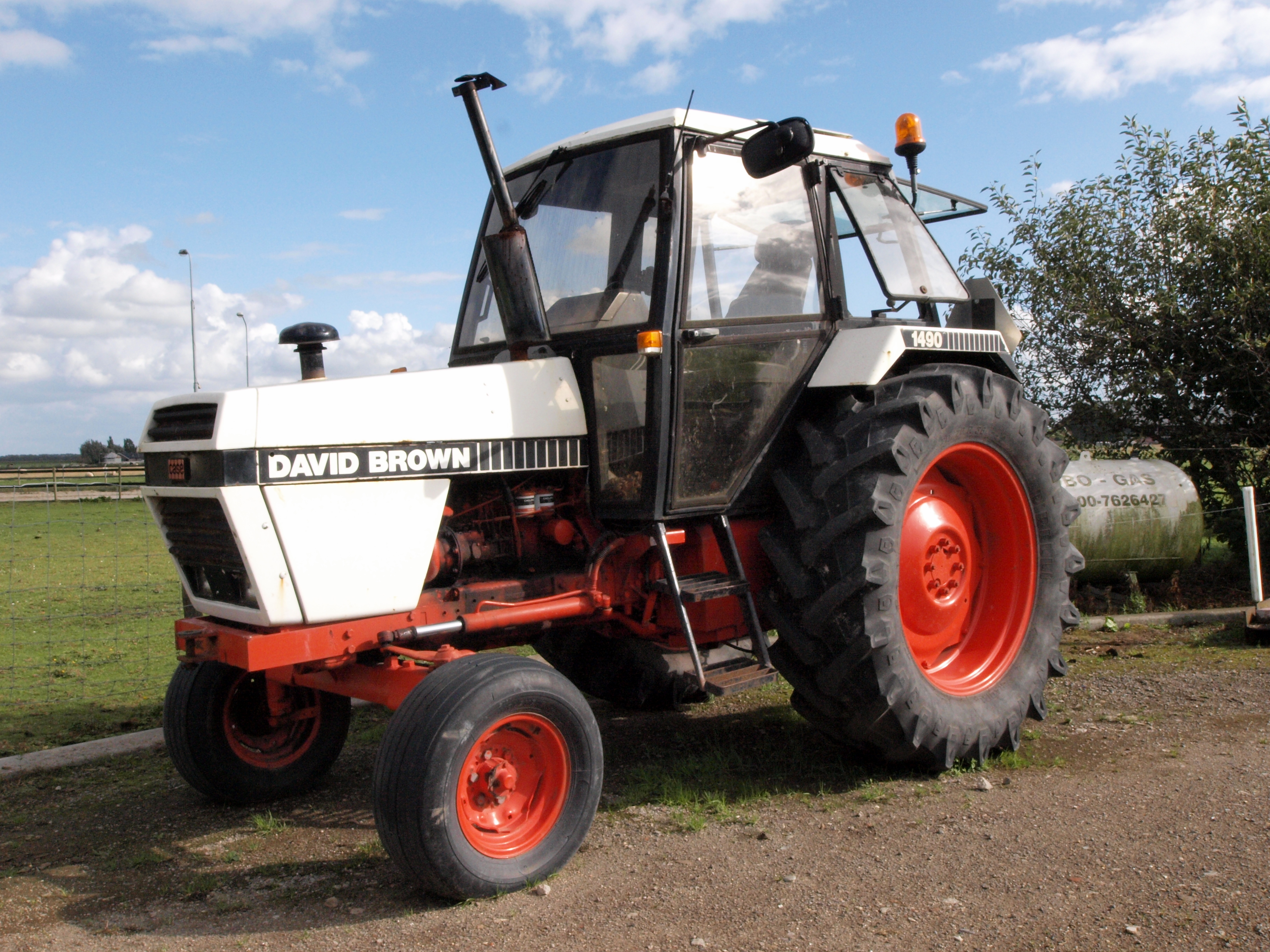 Case David Brown